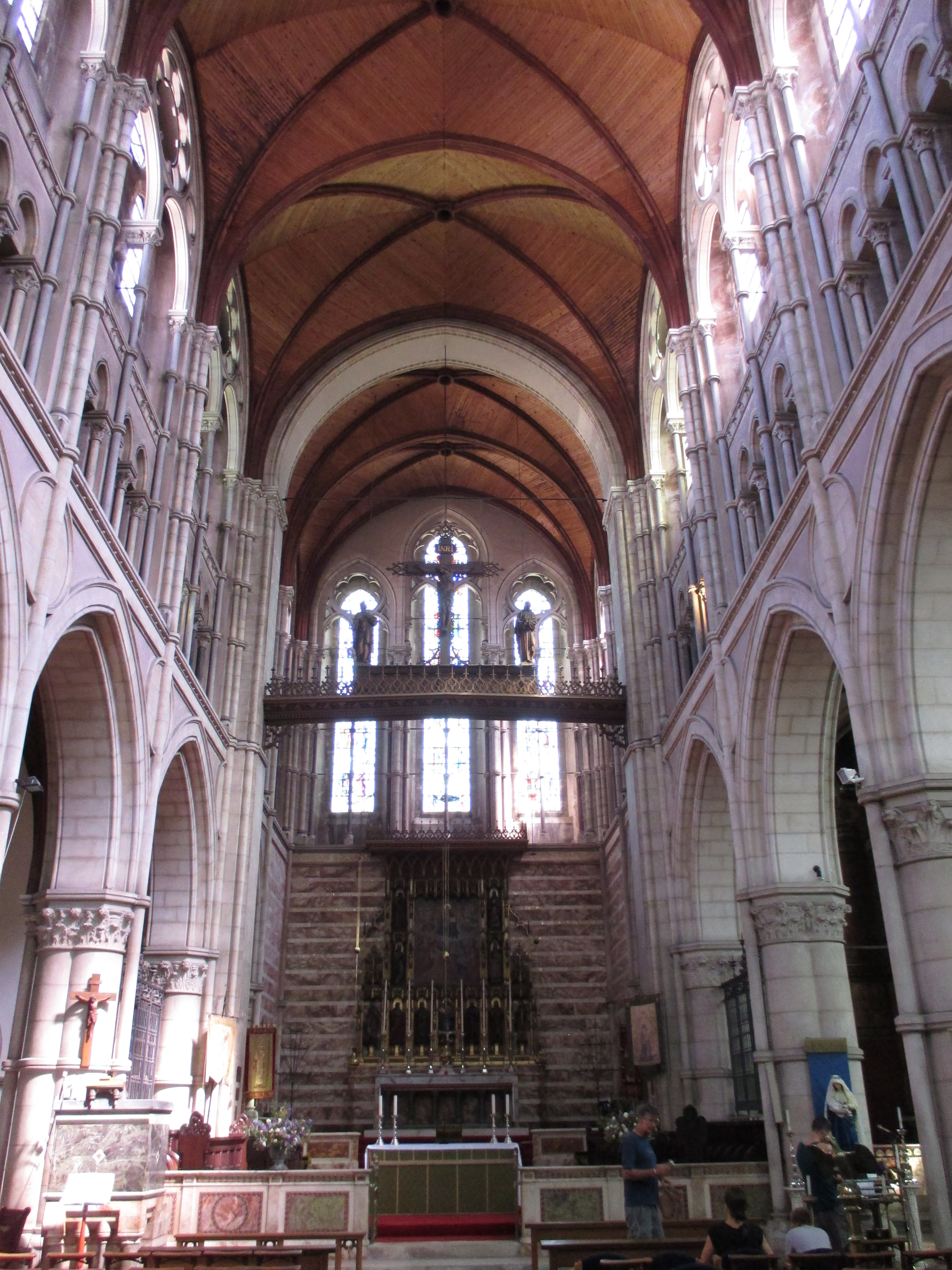 The nave and sanctuary of St Michael and All Angels Church, Brighton, East Sussex.